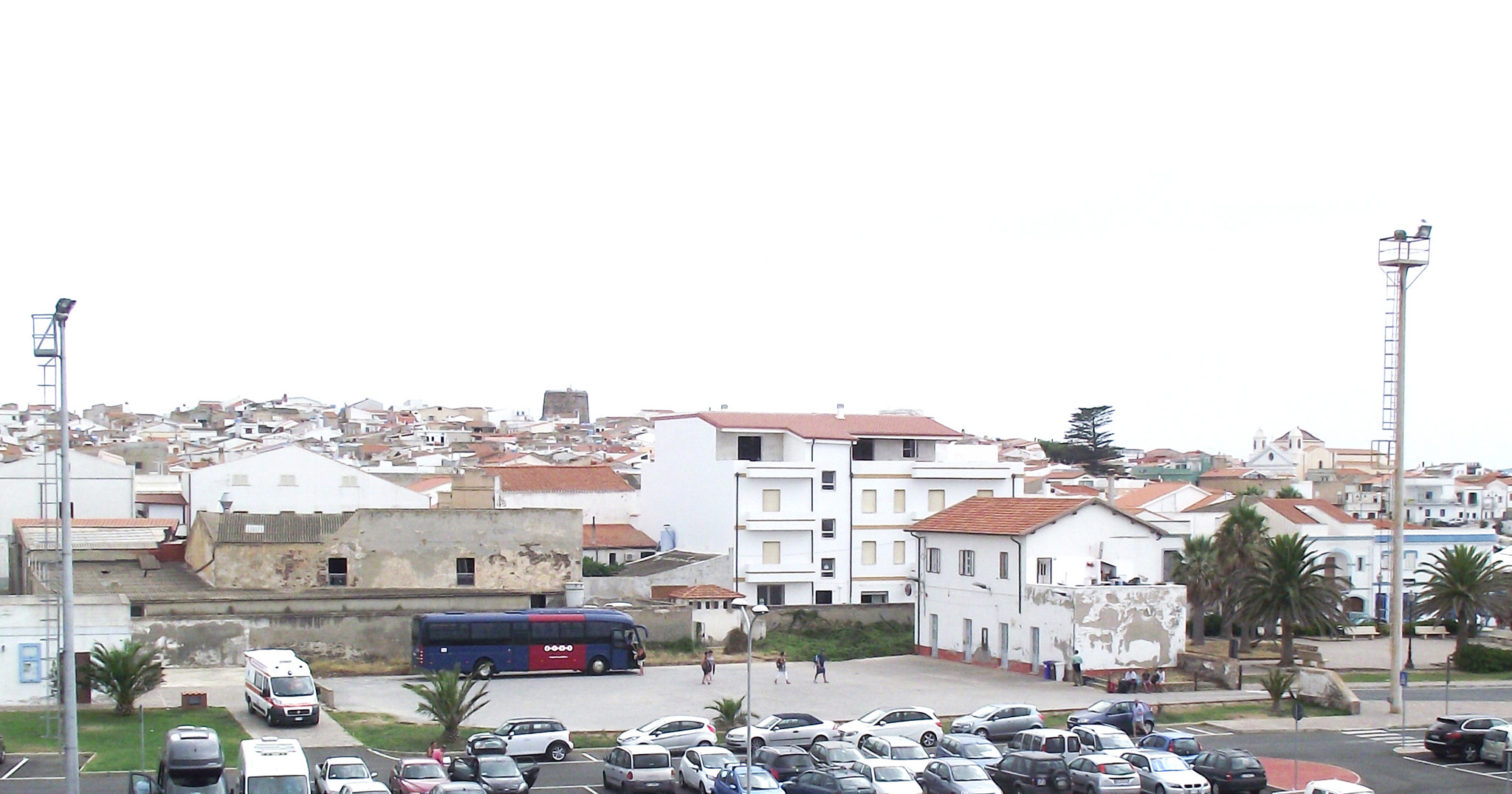 The former FMS railway station of Calasetta, Sardinia, Italy, terminus of the railway Siliqua-San Giovanni Suergiu-Calasetta, closed in 1974. Now is used by ARST for its bus service